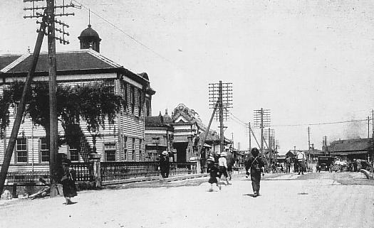 Hamamatsu downtown in Meiji and Taisho eras